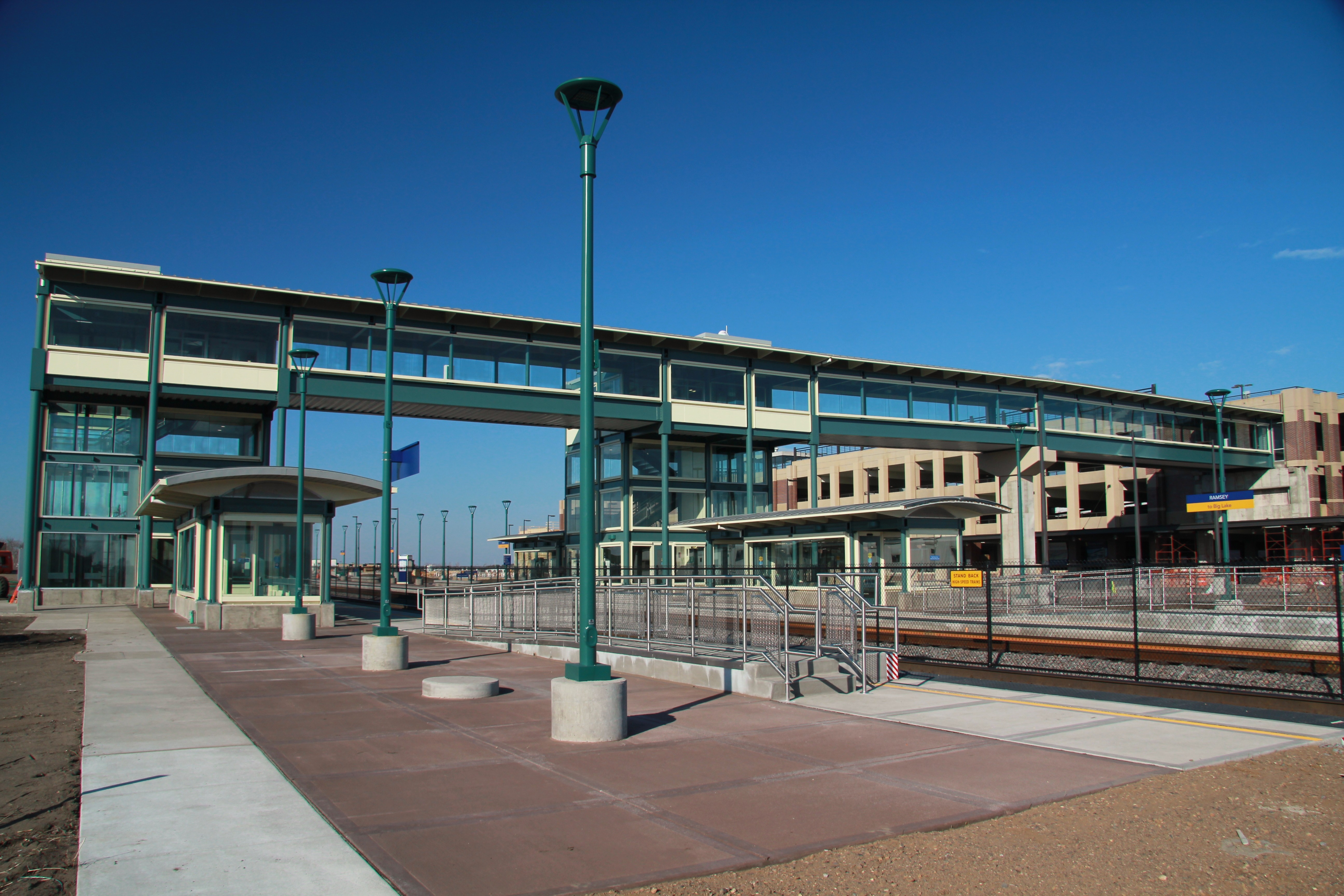 The new Northstar commuter station in Ramsey, Minnesota. It's quite the thing.